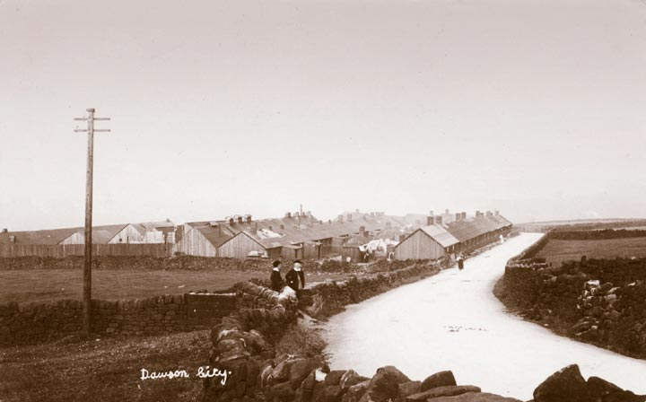 Dawson City during the construction of the Walshaw Dean Reservoirs